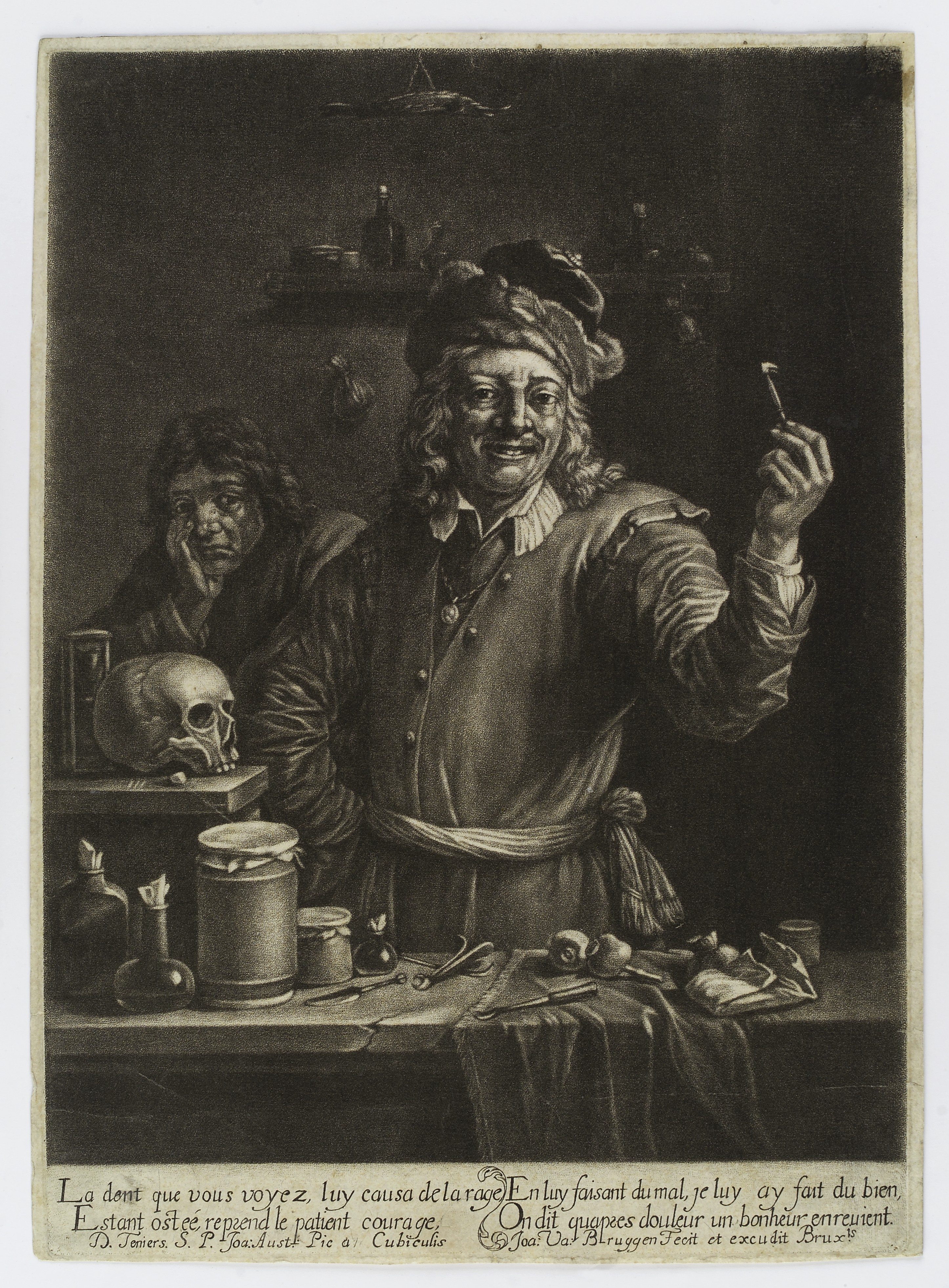 A tooth-drawer proudly holding up a tooth he has just extracted, the patient holding his face in the background. Mezzotint after David Tenniers (1610-1690). Iconographic Collections Keywords: Dentists; Instruments; Tooth Extraction; Dental Care; David Teniers; Dentist; Costume; Dentistry; Surgery; Jan van der Bruggen; Toothache